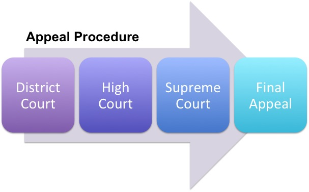 appeals procedure